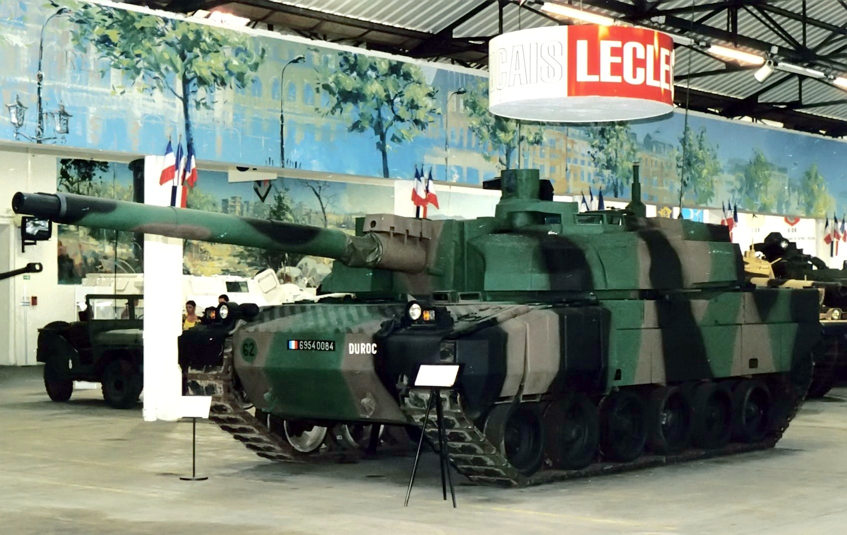 Prototype of Leclerc tank at Saumur tank museum